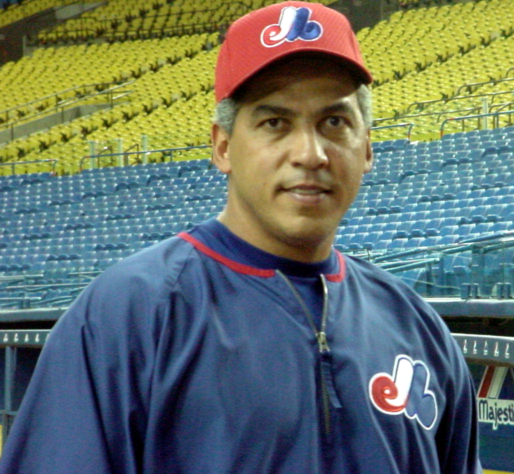 This photo was taken by user dlz28 and is released into the public domain. 17:34, 1 May 2006 . . Dlz28 . . 1028×948 (159 KB)